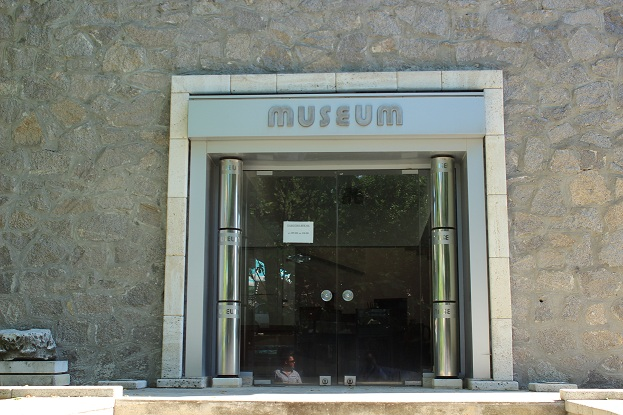 Sozopol Archaeological Museum